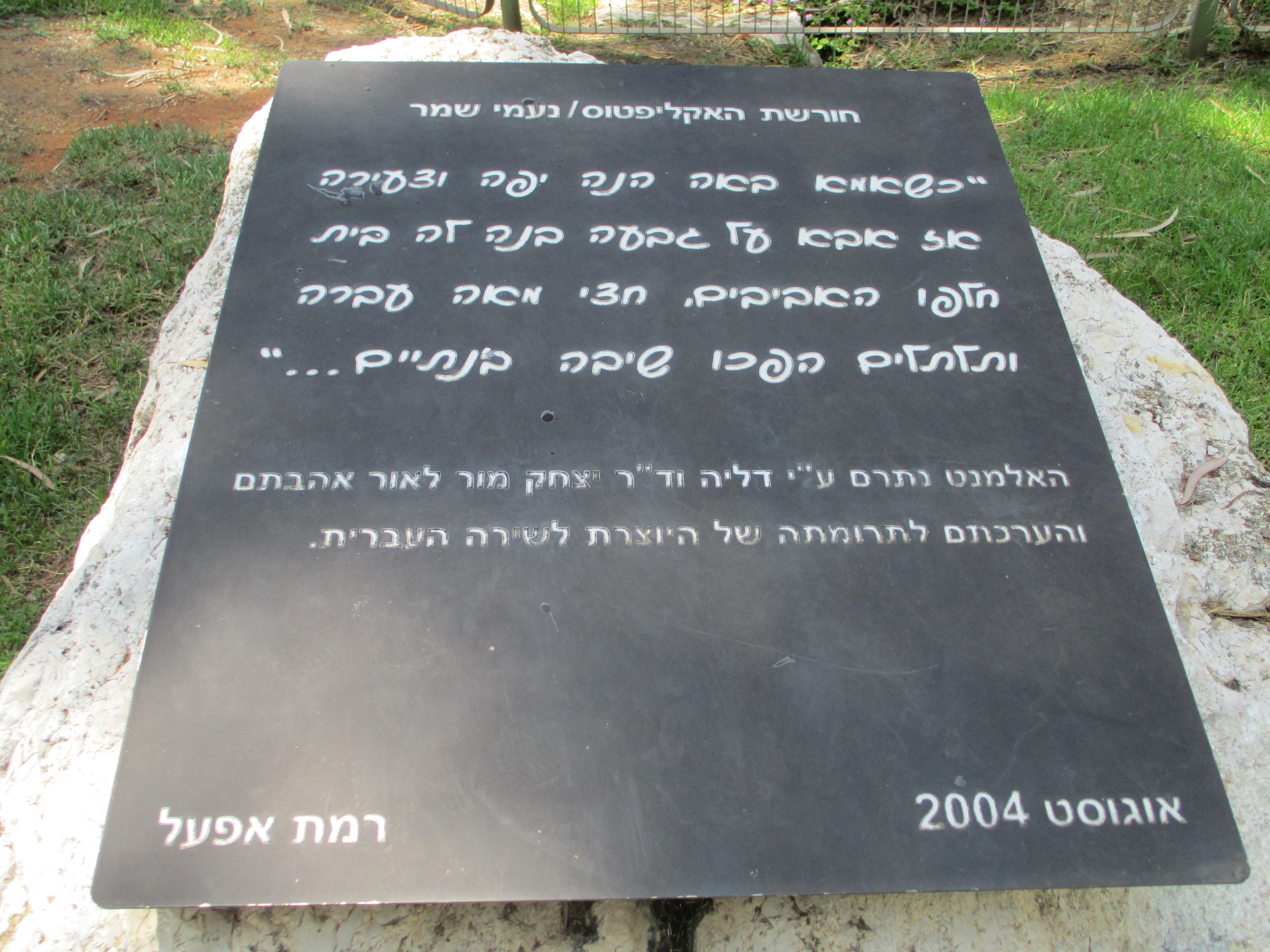 Eucalyptus garden in Ramat Ef'al